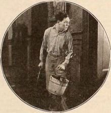 Still from the American film The Village Sleuth (1920) with Charles Ray, on page 4818 of the June 12, 1920 Motion Picture News.